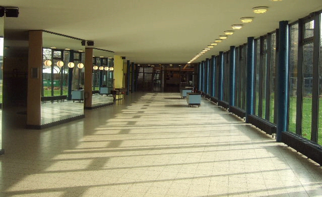 Beethovenhalle, conference and event hall in Bonn.